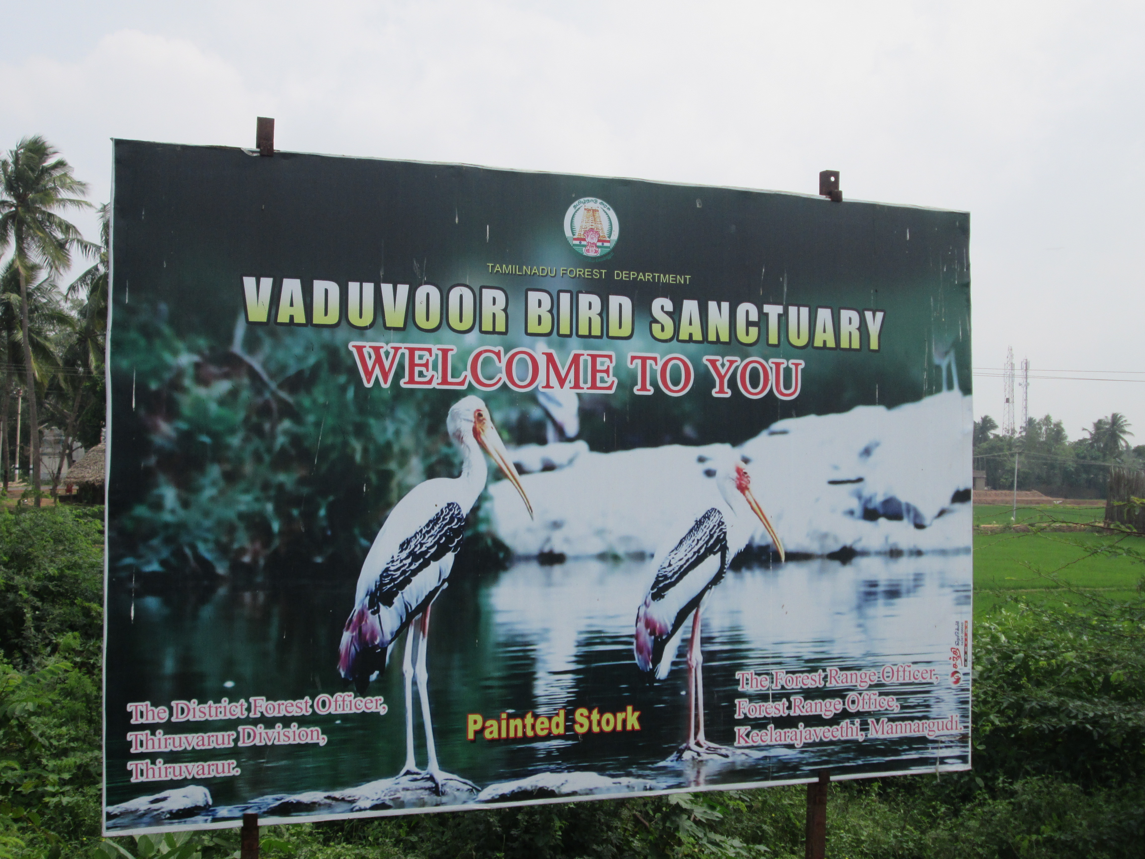 This photograph was taken by me at the entrance of Vaduvur Bird Sancturay. The photograph gives the Welcome message to the visitors.